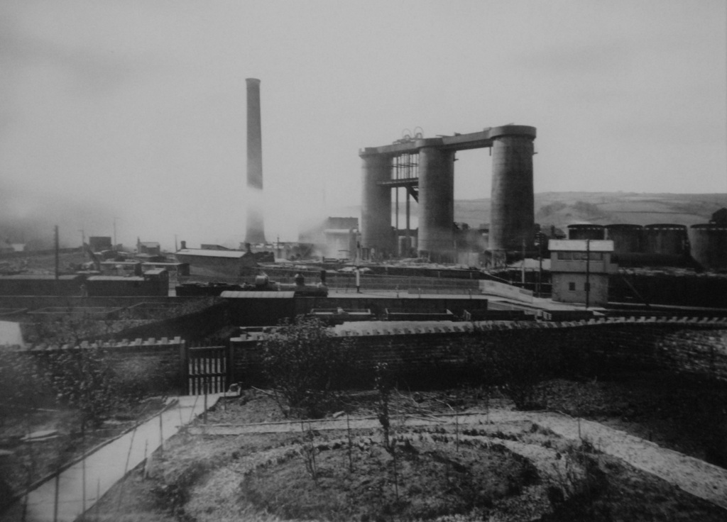 Photograph of Grosmont Iron Works, Grosmont, North Yorkshire, UK c.1880 More background at Dennison, E., Richardson, S. (2007) Former Grosmont Ironworks, Grosmont, North Yorkshire: Phase 1 Archaeological Survey. Beverley: Ed Dennison Archaeological Services Ltd , EDAR report 2007/303.R01. [1] The view is westwards across Grosmont station, showing 3 blast furnaces, and a chimney (engine house). A steam locomotive is visible in the foreground in the station